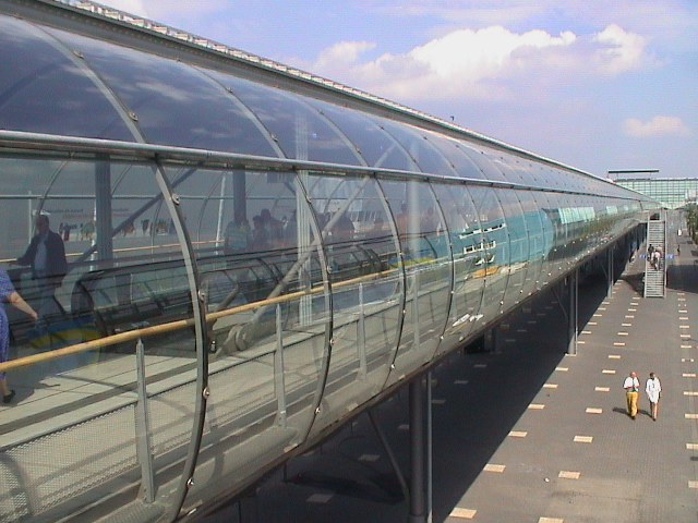 Railway station Hannover-Messe/Laatzen, Skywalk, the connection between station and exhibition ground